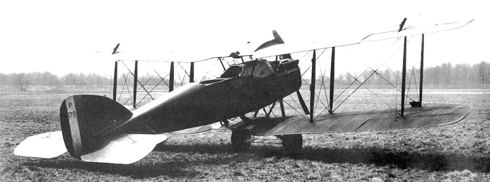 Dayton-Wright XB-1A, McCook Field, Ohio, 1920